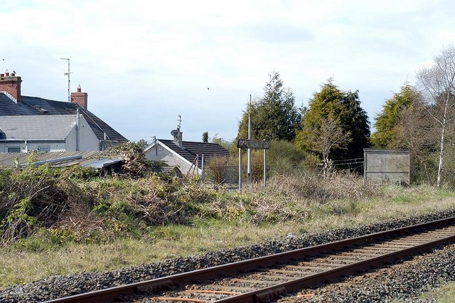 Drumsough Station Drumsough Station (previously known as Cookstown Junction), well, this is all that remains of the station today, a station name board!